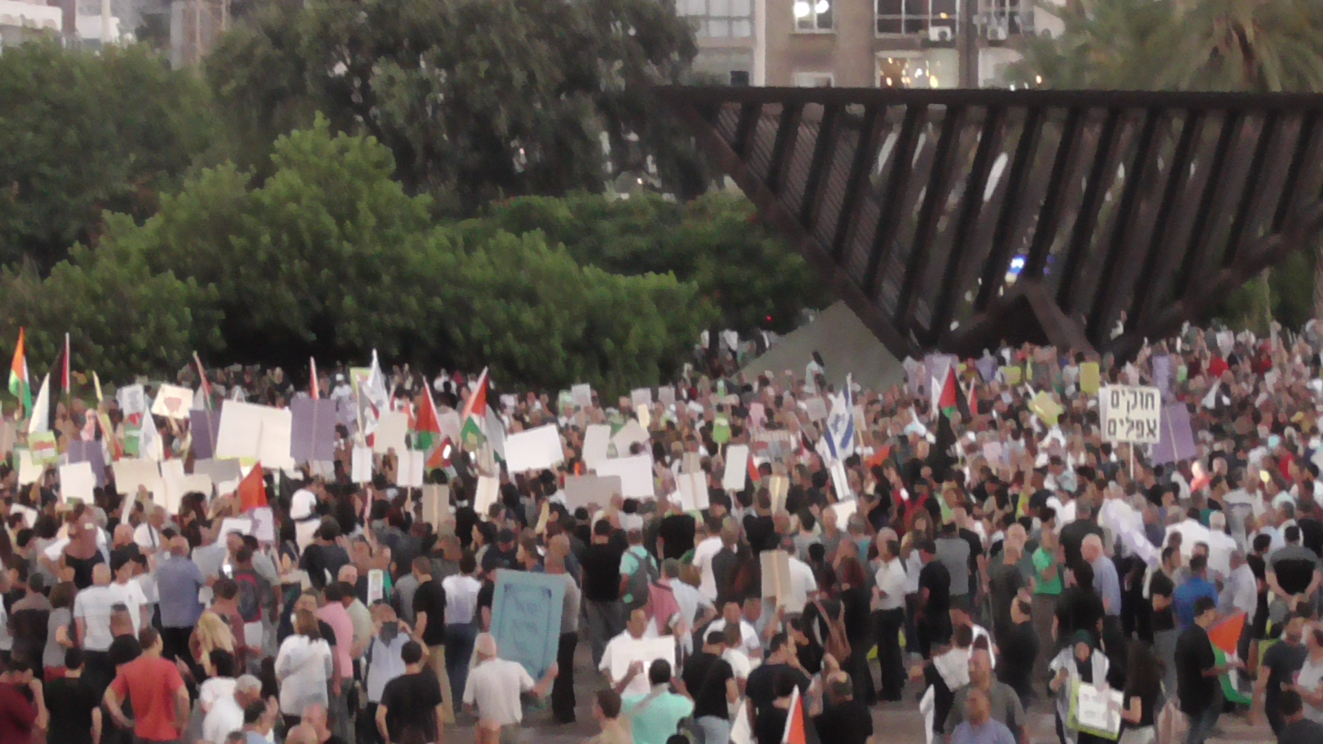 Protest against Basic Law: Israel as the Nation-State of the Jewish People. Tel Aviv, Aug 11 2018